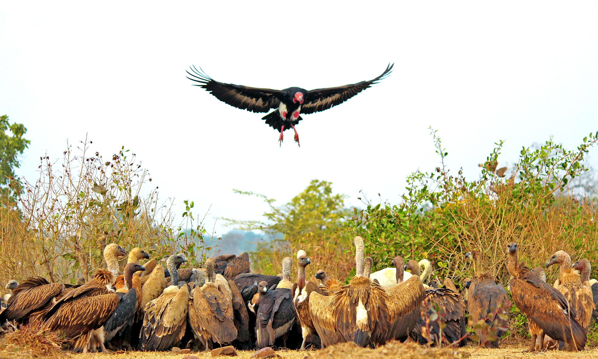 A flock of Vultures on carcass Clicked at- Chhatarpur, MP Canon 1200D, 55-250 mm